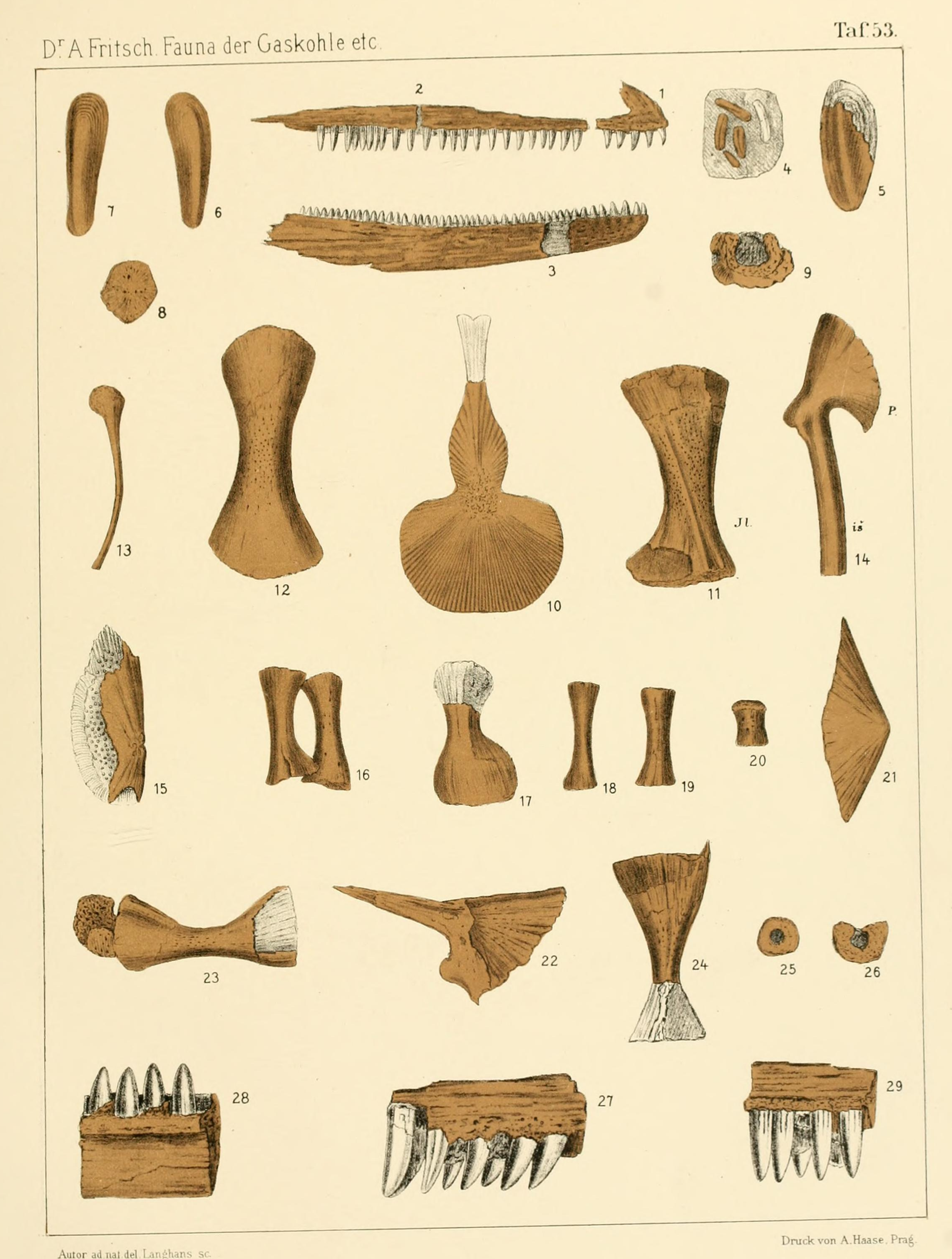 Fossil material referable to Diplovertebron punctatum, illustrated from fossils contained in specimen Fr. Orig. 128. From Plate 53 of Volume 2 of the source. Original text (translated): " Diplovertebron punctatum, Frič. (Text page 11.) (Compare Plates 50 and 52.) Scattered skeletal remains lying in a confused position covering one 400 cm. wide plate. 1. Premaxillae. 2. Maxilla. 3. Lower jaw. 4. — 7. Scales. 8. Tarsal Bones? 9. Cross section of a vertebral centra. 10. Parasphenoid? or Interclavicle. 11. Humerus? 12. Femur. 13. Rib. 14. Pelvic bone. 15. Bones of the palate. 16. — 20. Limb bones 21. Angular of the lower jaw. 22. Postfrontal (or Epioticum). 23. — 24. bones of forearm or shin. 25. — 26. Vertebral cross sections. 27. — 29. Jaw fragments with teeth. (Numbers 1—4. and 8—26. enlarged 2 times. Number D Orig. 96.[sic] — Numbers 5,6,7, and 27—29. enlarged 6 times.)"